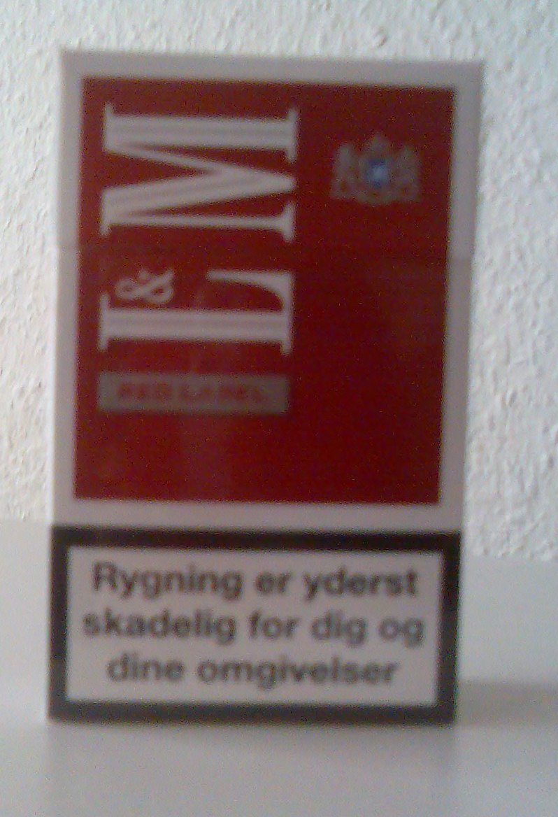 L&M Red Label, sales in Denmark.